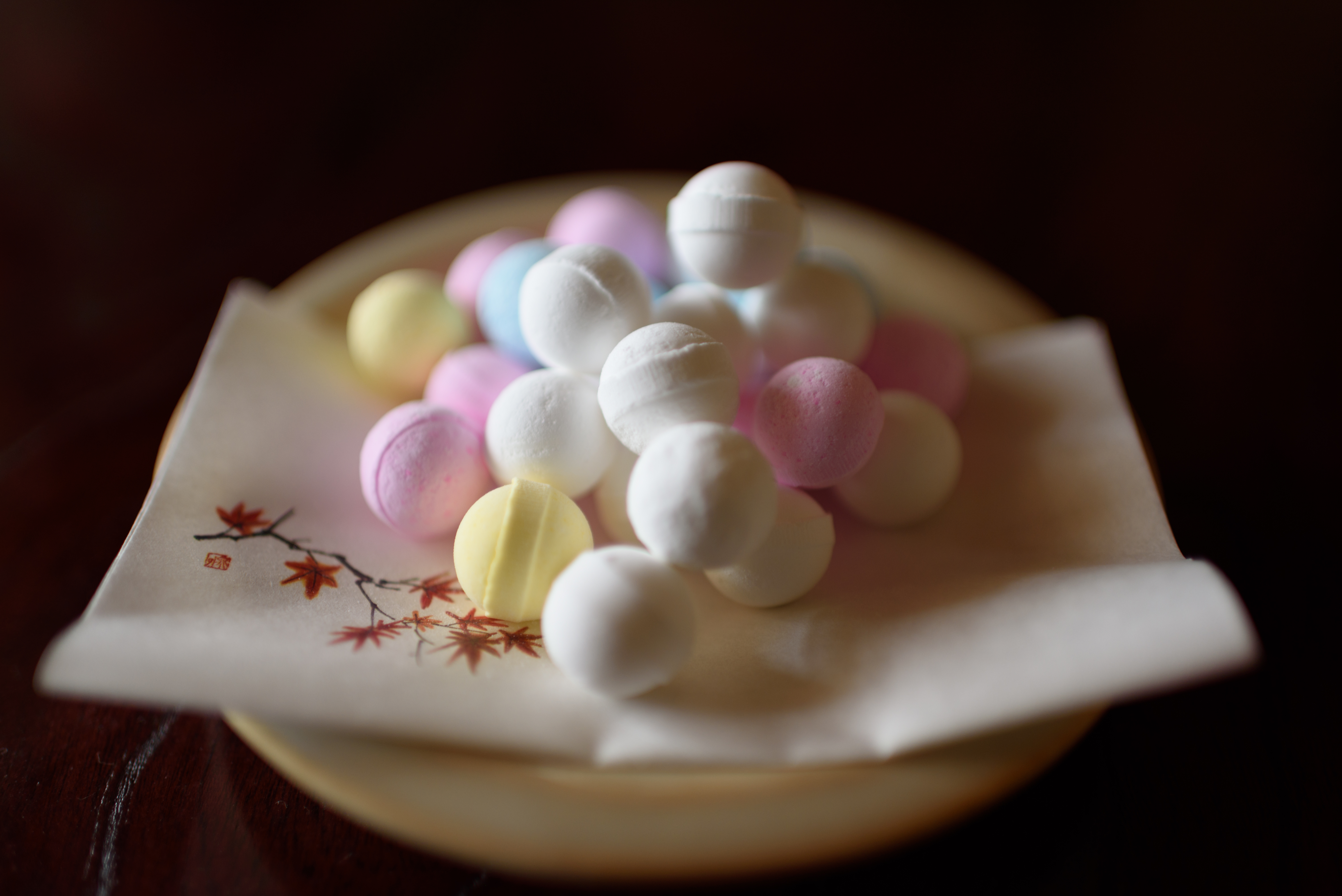 Rainbow Ramune is the candy tablet made by Ikoma Seika Hompo.